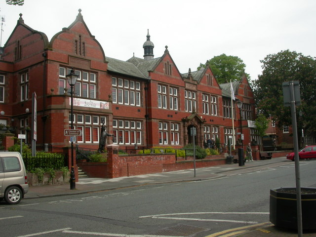 Altrincham Town Hall In Market Street; built 1900, extended 1930. Used as a town hall until local government reorganisation in 1974. Internally, fine heraldic stained glass; the old council chamber has a barrel-vaulted roof.